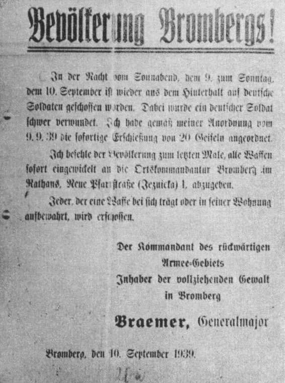 German announcement in occupied Polish city Bydgoszcz (dated 10th September 1939), signed by Commandant of Rear Army Area 580 (Korück 580) – generalmajor Walter Braemer, informing about the public execution of 20 of Polish hostages at Old Market in Bydgoszcz on 9th September 1939.